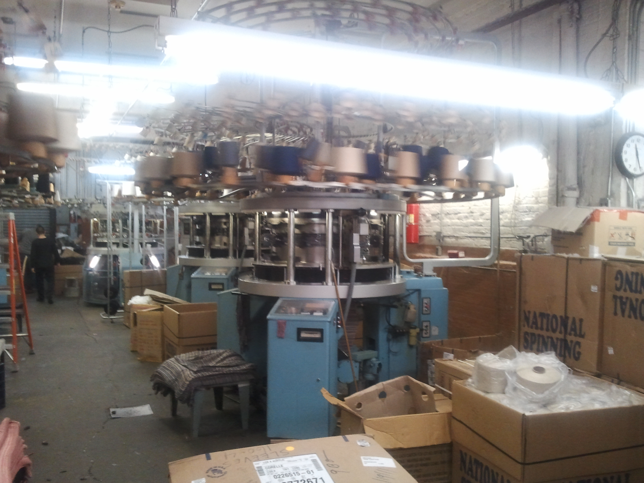 DWN-3E